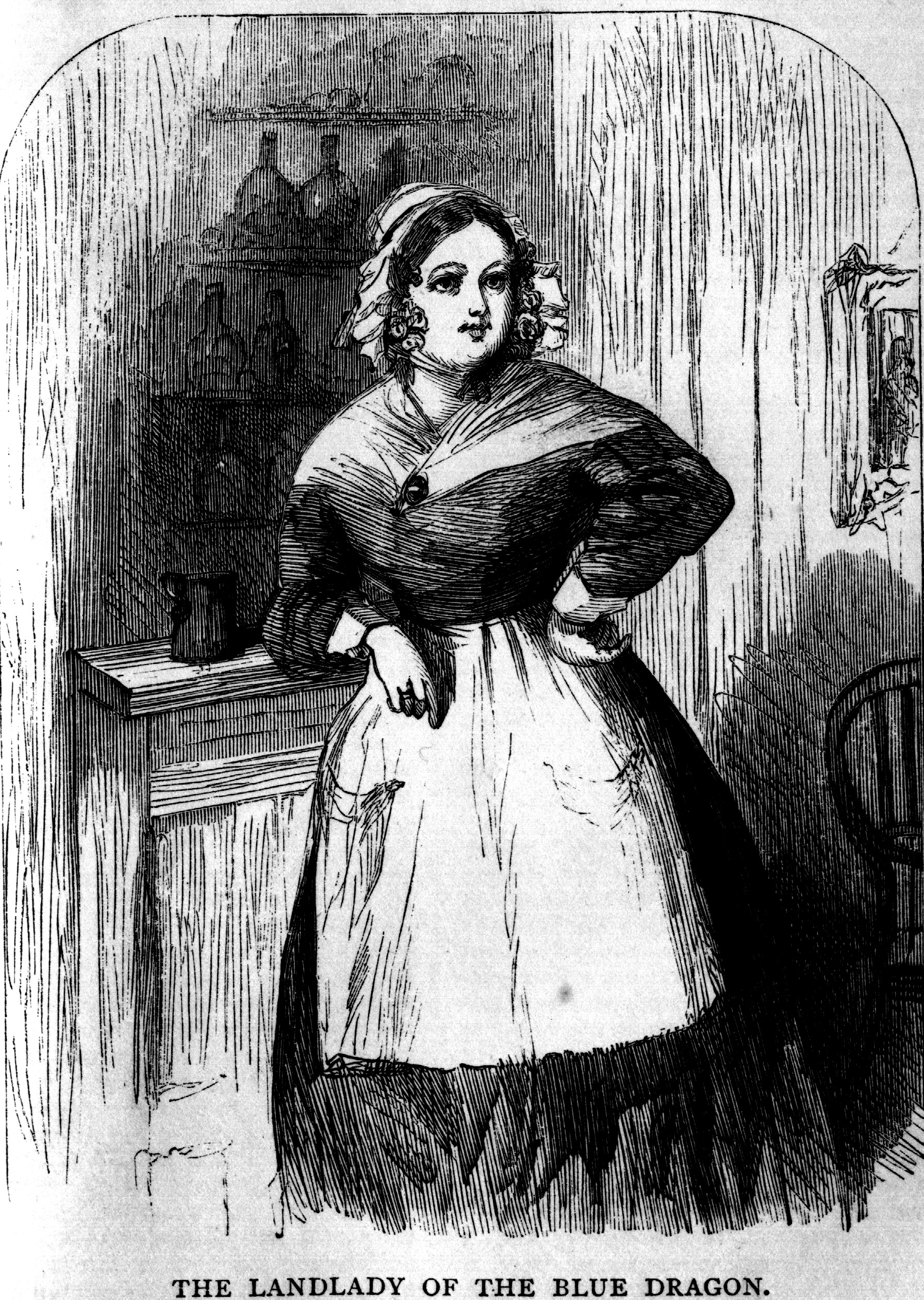 Illustration from 1867 U.S. edition of Martin Chuzzlewit. Page 16. "The landlady of the Blue Dragon"